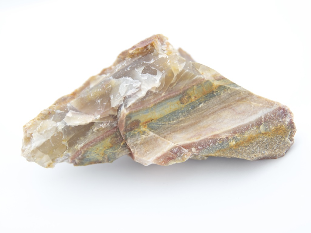 Green jasper, from Montjuïc mountain, Barcelona, Catalonia